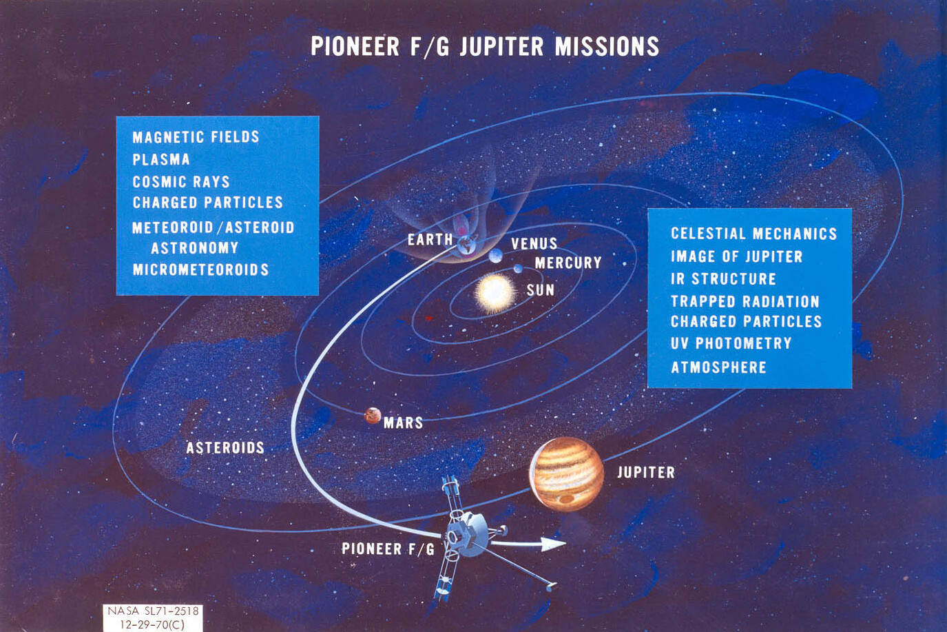 This image, drawn in 1970, is an artist's rendering of the Pioneer 10 spacecraft trajectory, with the planets labeled and a list of the instruments that were intended to be flown. Before the use of computer animation, artists were hired by JPL and NASA to depict a spacecraft in flight, for use as a visual aid to promote the project during development. Pioneer 10 was managed by NASA Ames Research Center in Moffett Field, California. The Pioneer F spacecraft, as it was known before launch, was designed and built by TRW Systems Group, Inc.. JPL developed three instruments that flew on the spacecraft: Magnetic Fields, S-Band Occultation, and Celestial Mechanics; as well as running the Deep Space Network which provided tracking and data system support. Caltech was responsible for the Jovian Infrared Thermal Structure experiment. Pioneer was very successful, crossing the orbit of Mars and the asteroid belt beyond it; encountering, studying, and photographing Jupiter; then crossing the orbits of Saturn, Uranus, and Neptune. It left the solar system in 1983 and has been contacted several times in the past few years. As of July 2001, the spacecraft was still able to send a return signal to Earth. At Jupiter, the experiments of Pioneer were used to examine the environmental and atmospheric characteristics of the giant planet. Pioneer was also the vital precursor to all future flights to the outer solar system. It determined that a spacecraft could safely fly through the asteroid belt. It also measured the intensity of Jupiter's radiation belt so that NASA could design future Jupiter (and other outer planets) orbiters.